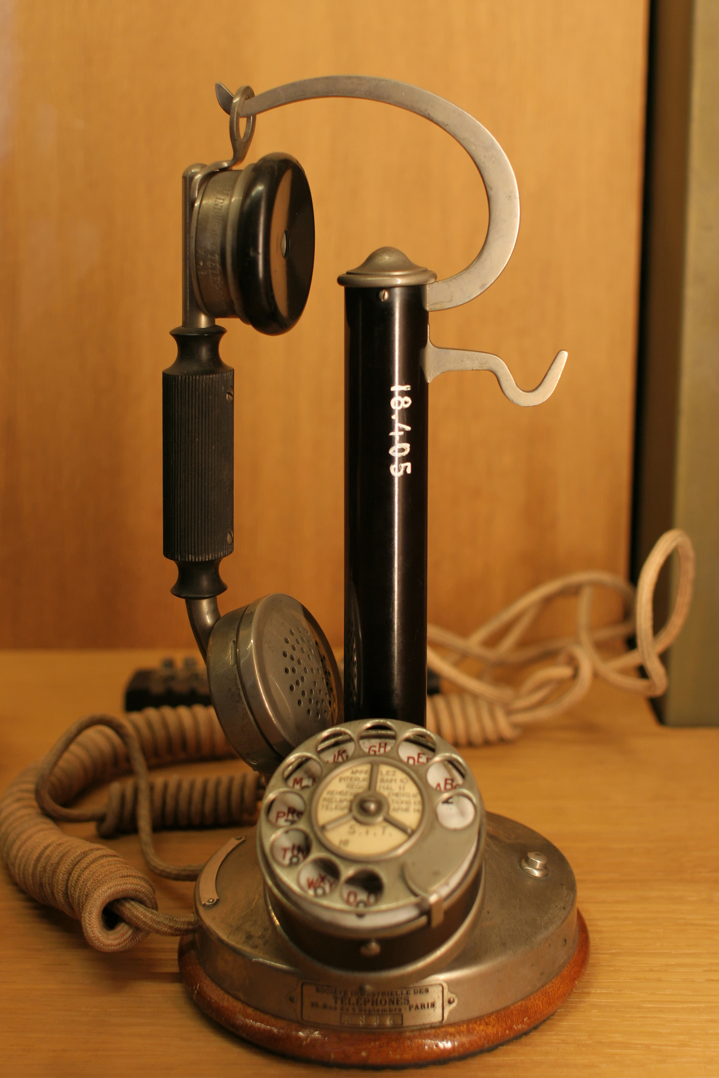 130 mobile set